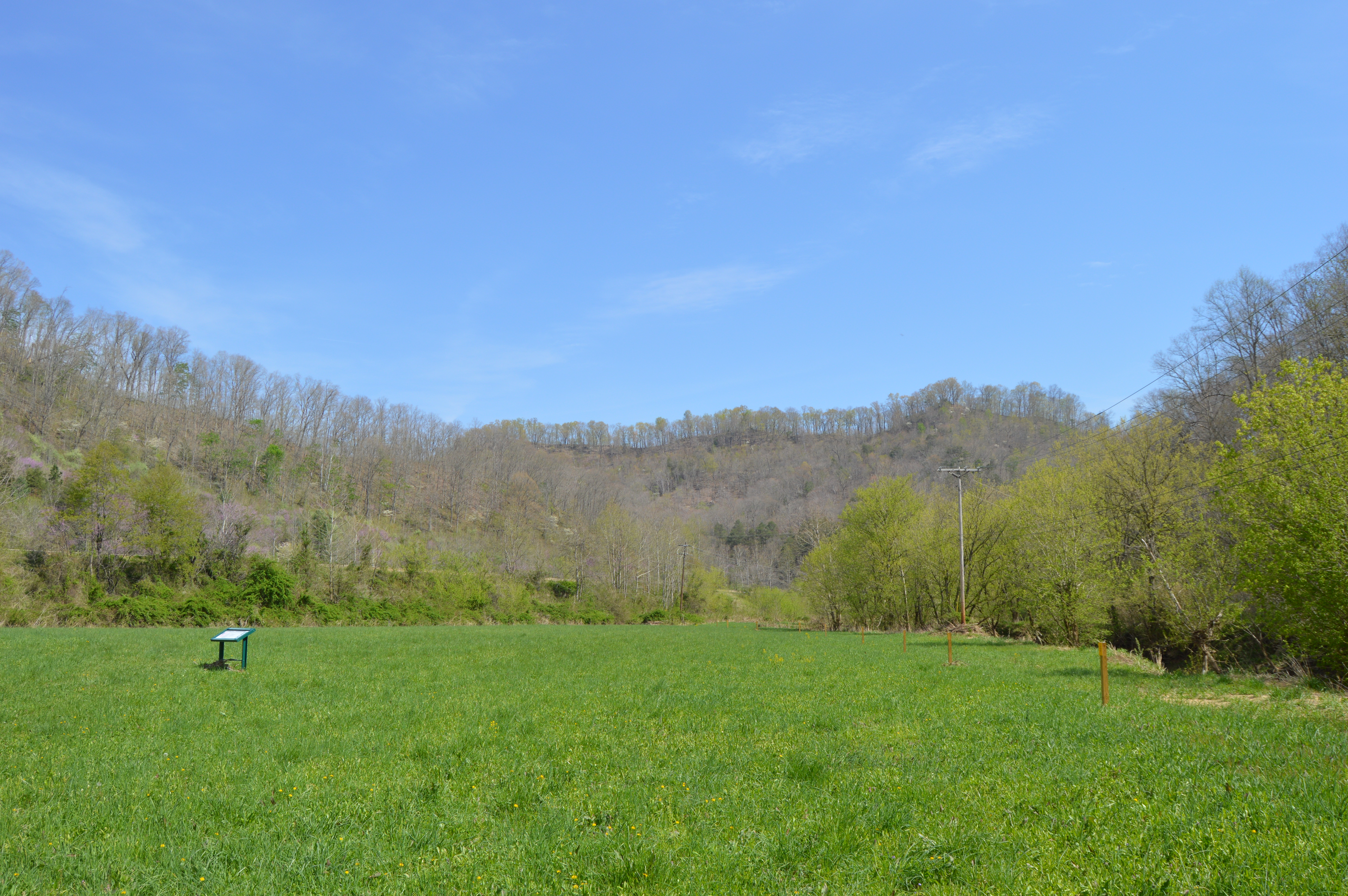 Looking northeast in the eastern section of the Middle Creek Battlefield, located west of Prestonsburg in Floyd County, Kentucky, United States. The hill in the distance was Union Colonel James Garfield's command post, while the Confederate position was on the hillside and hilltop barely visible to the far right. Fought here in early 1862, Middle Creek was one of the most decisive battles of the Civil War in eastern Kentucky. The site has been designated a National Historic Landmark.